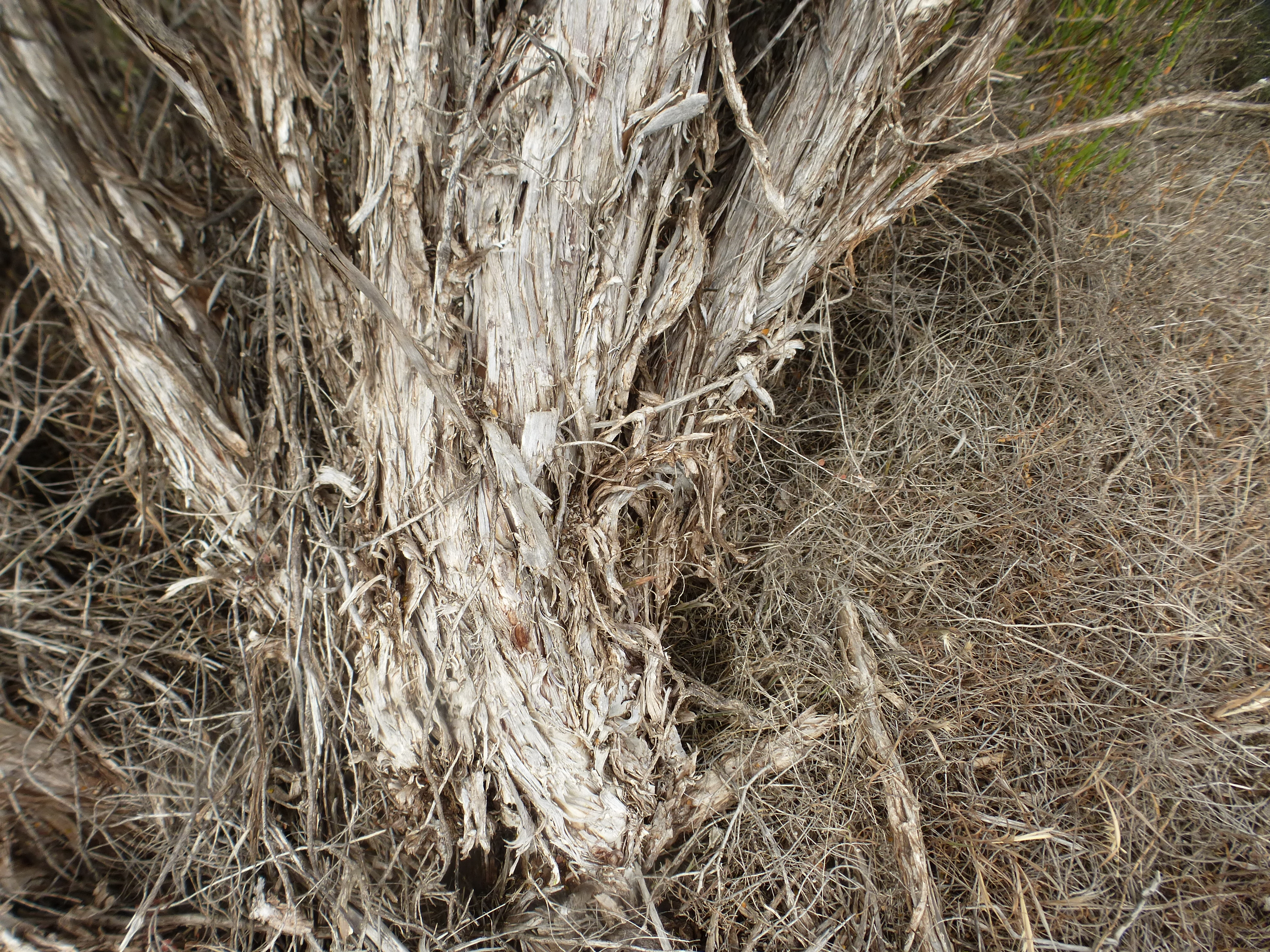 Melaleuca lateriflora growing 13 km E of Wagin